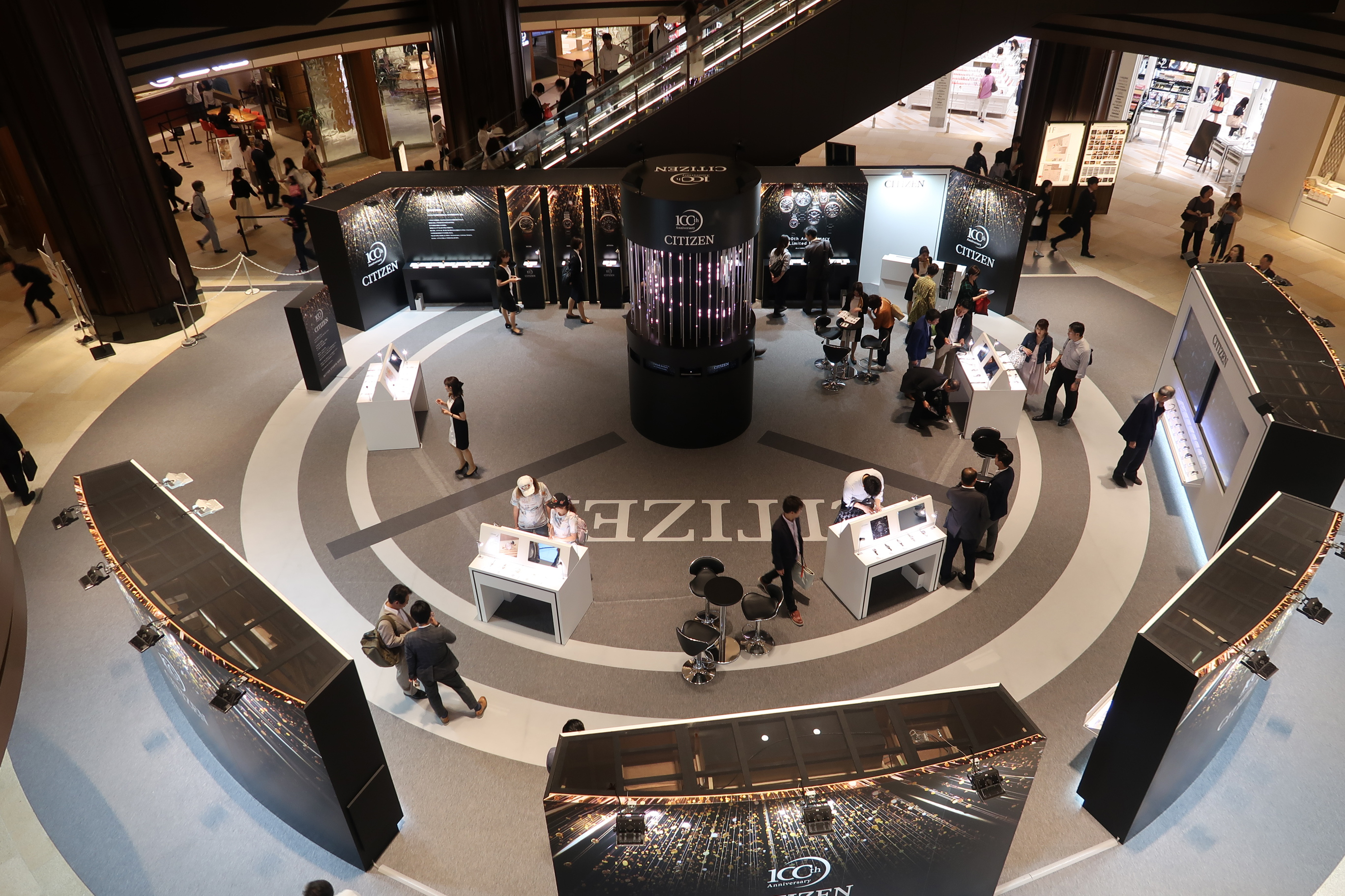 Citizen Exhibit in Tokyo Midtown Hibiya